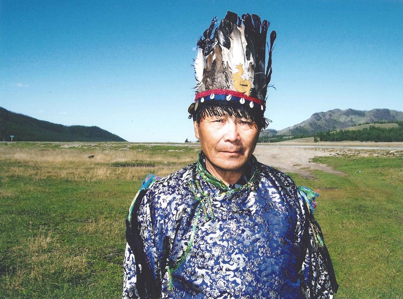 Mongolian Shaman Lamaists Heavenly origin Republic of Tyva, Russia